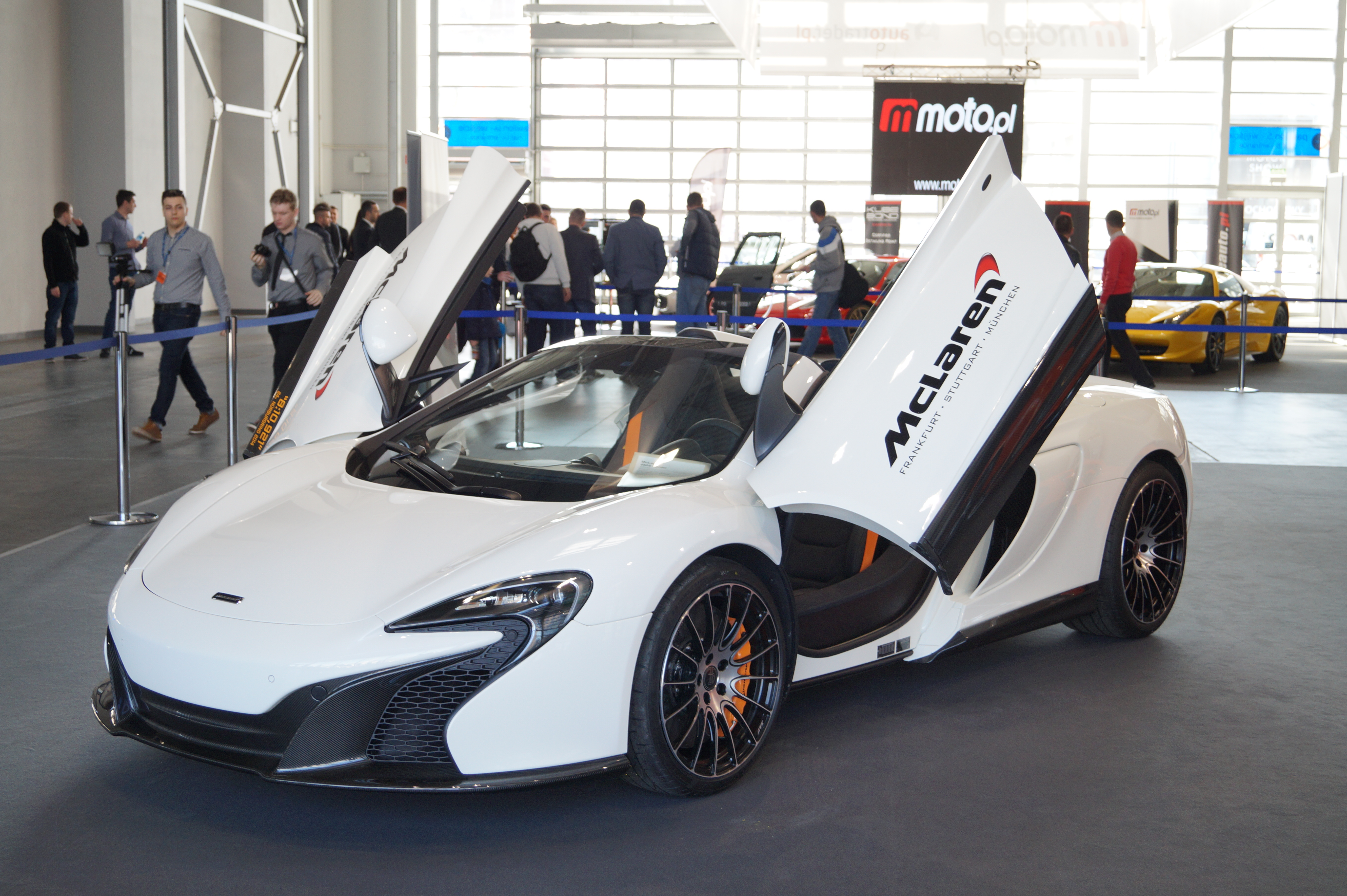 The making of this document was supported by Wikimedia Polska Association, within Wikigrant no. WG 2015-19. English | polski | +/− Przód McLarena 650S Spider na Motor Show Poznań 2015